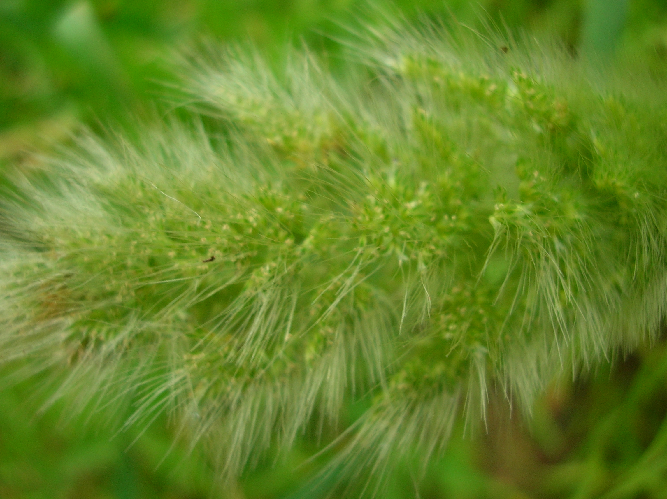 Polypogon interruptus (habit). Location: Maui, Kula